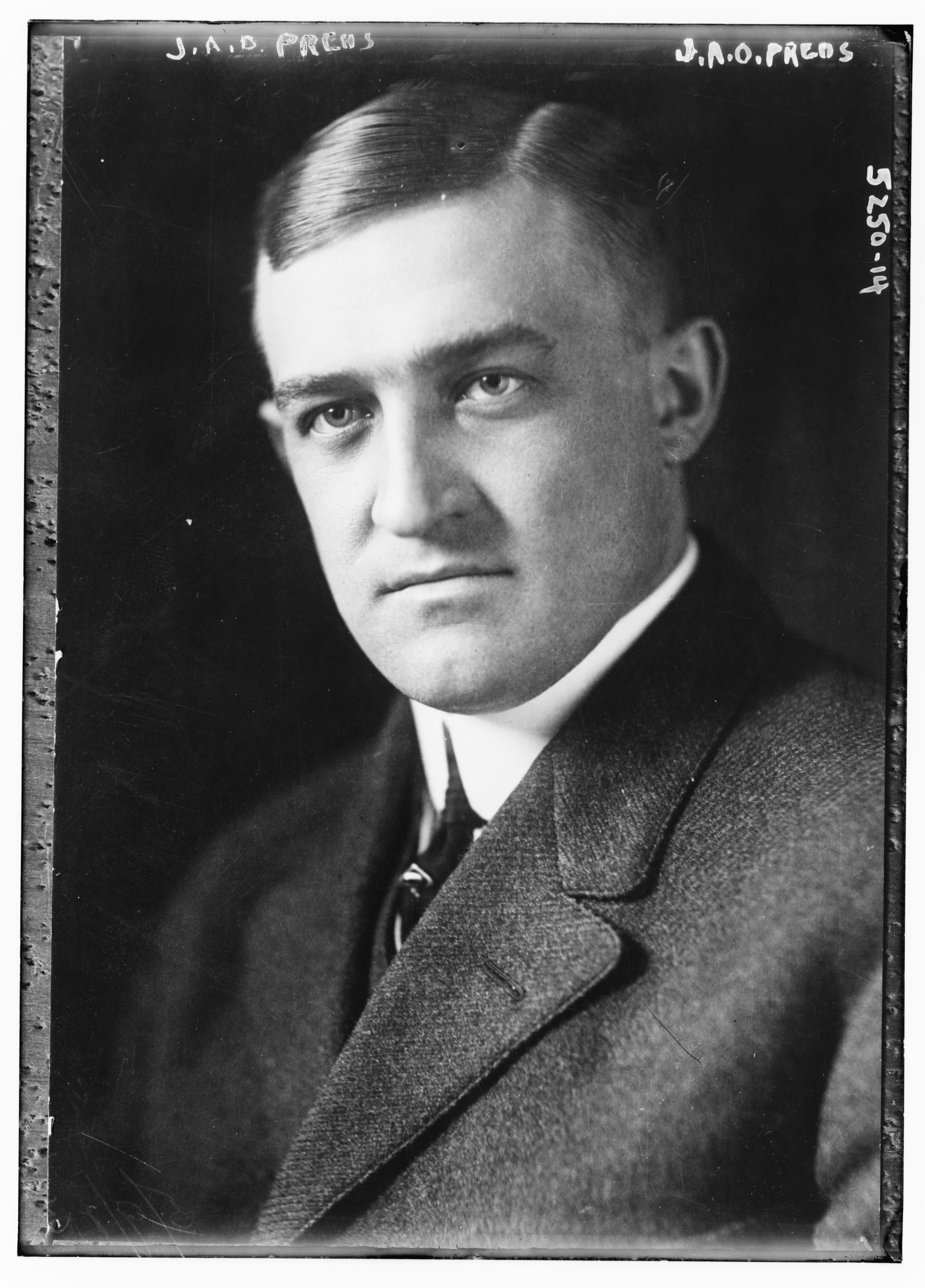 Jacob Aall Ottesen Preus I circa 1920